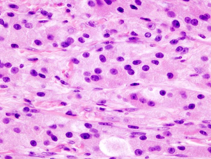 Histopathologic image of granular cell tumor of the skin. The same case as shown in a file "Granula_cell_tumor_(1)_skin.jpg". H & E stain.